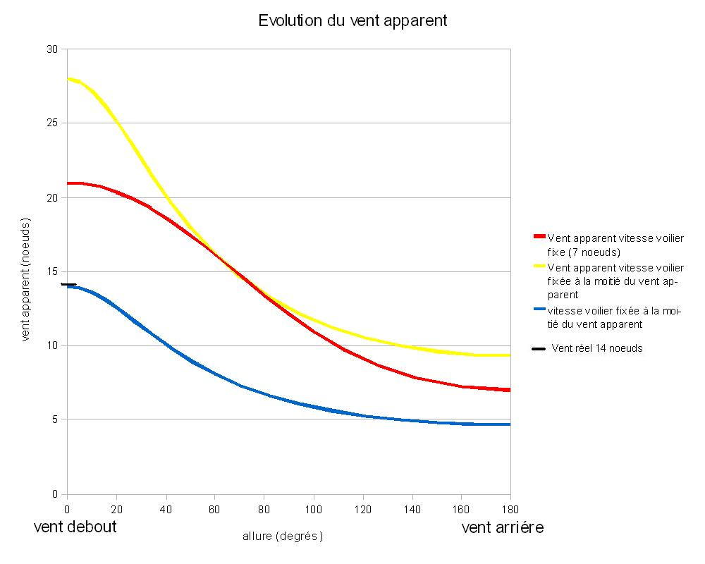 two cases are shown : evolution of apparent wind with a booat at fixe speed (7kt) red curve evolution of apparent wind with a speed boat efficiency fixe at half of apparent wind wind in yellow boat speeed in blue angle in degres, angle is angle between apparent wind and boat